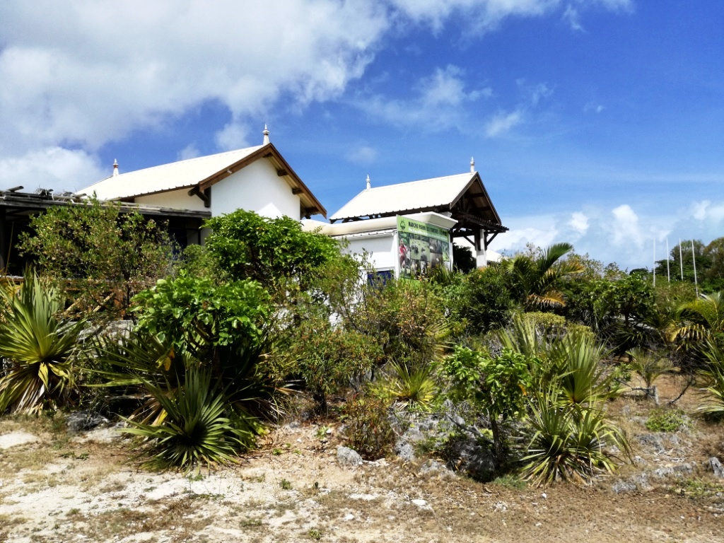 François Leguat Tortoise park and caves - Rodrigues